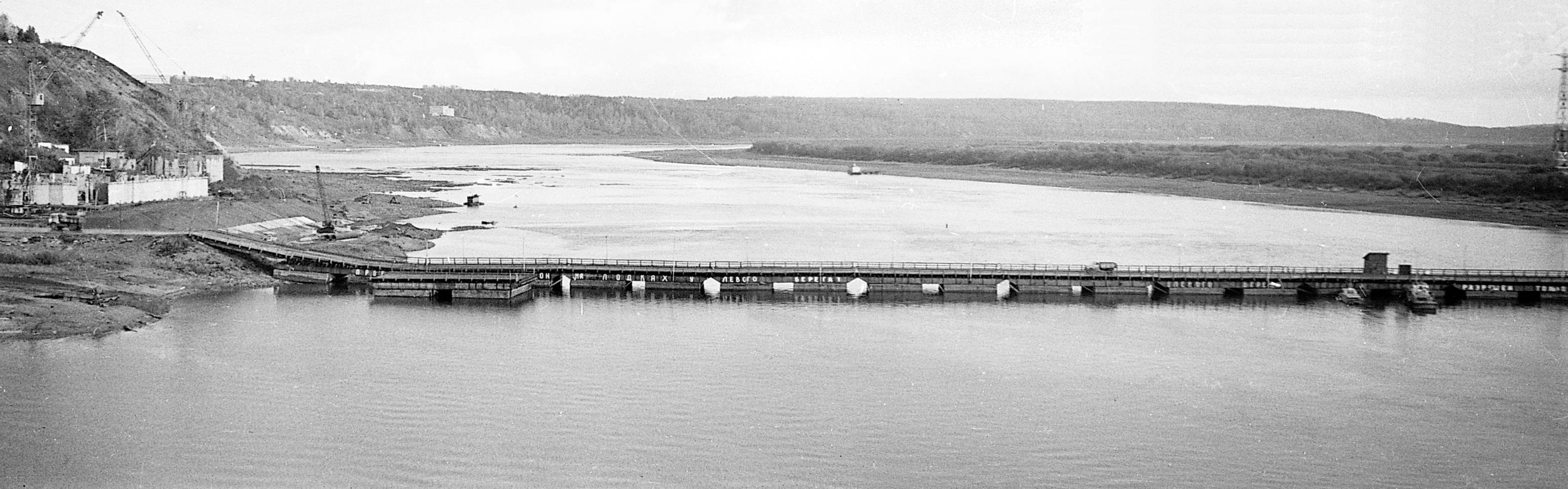 Pontoon bridge, Tomsk, 1973